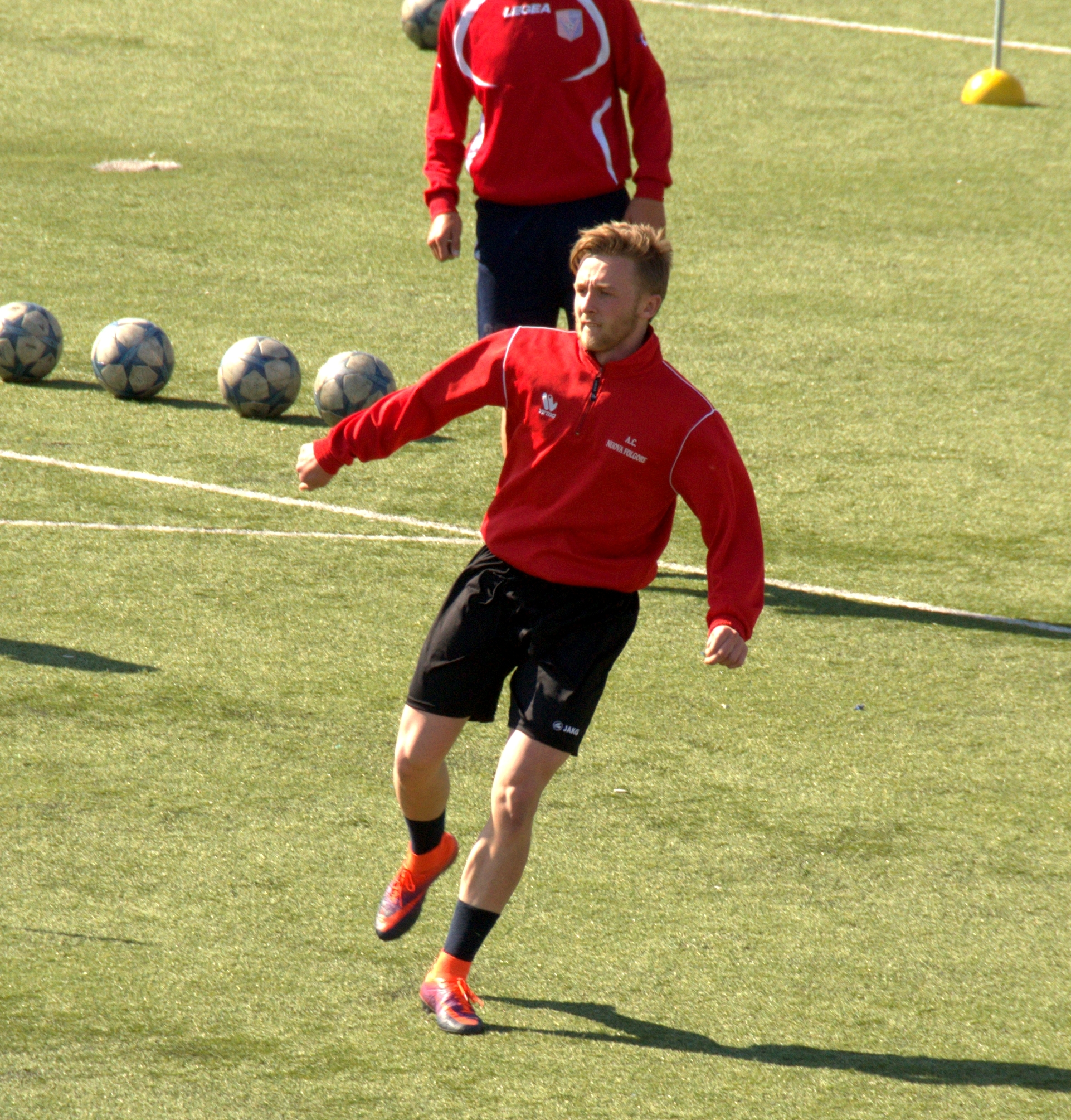 Gjorgj Kushi training with FK Vllaznia in 2017